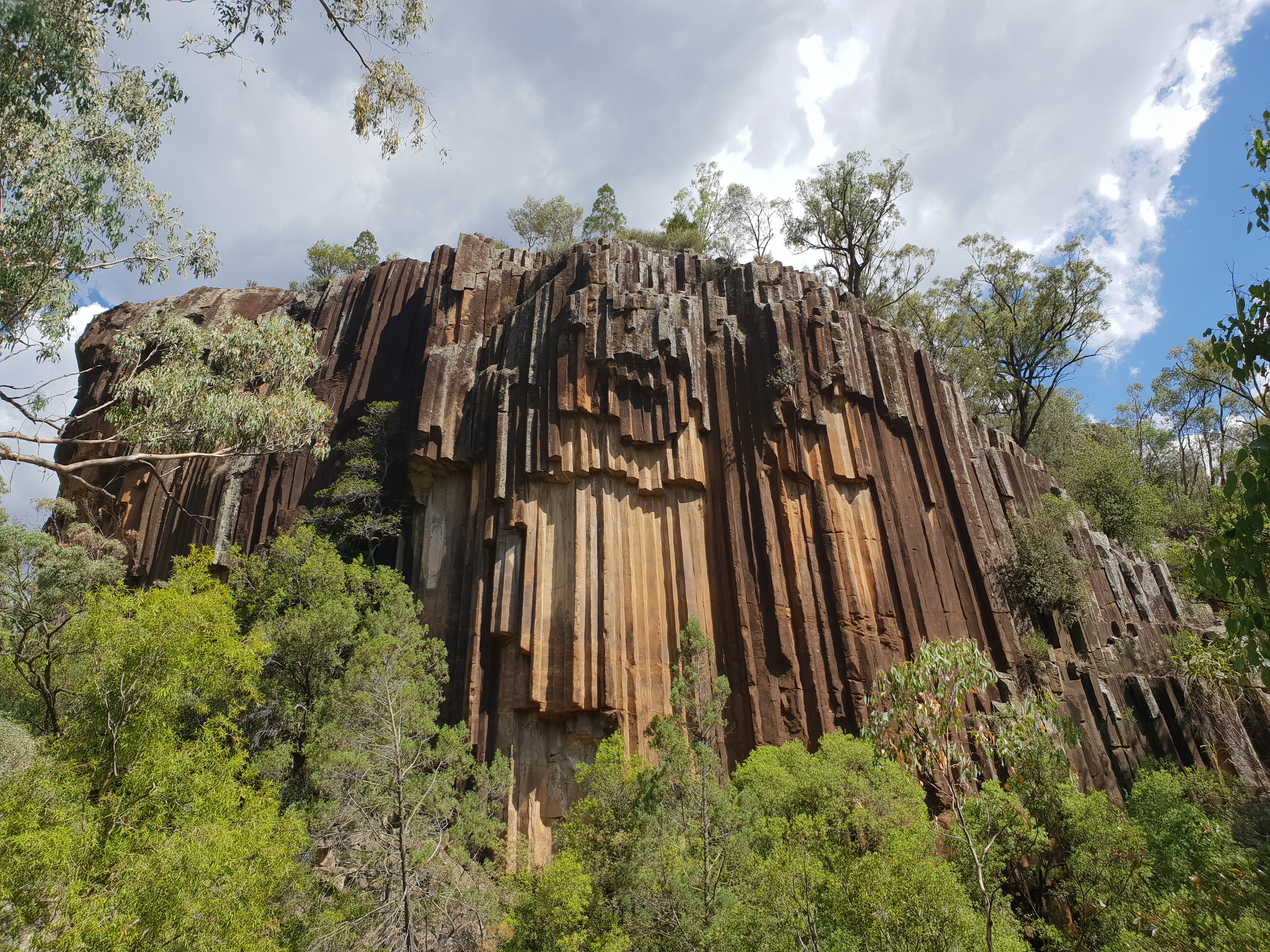 Sawn Rocks, the organ-pipes (columnar jointing) formation theough flow lava that cooled slowly